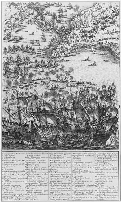 Siege_de_la_Rochelle_par_louis_XIII_et_Richelieu_du_10_aout_1627_au_28_octobre_1628_planche_2_Jacques_Callot_1592_1635